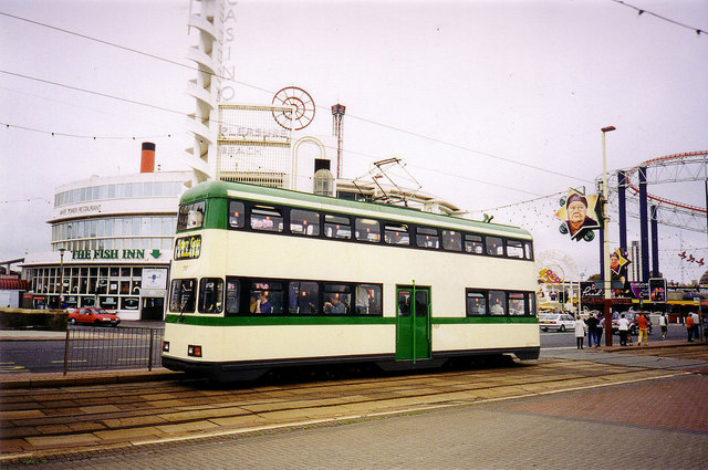 Millennium car 707 seen with its brand new body at the Pleasure Beach.